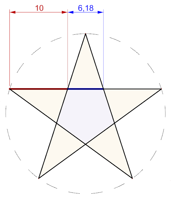 Golden ratio, Pentagram.